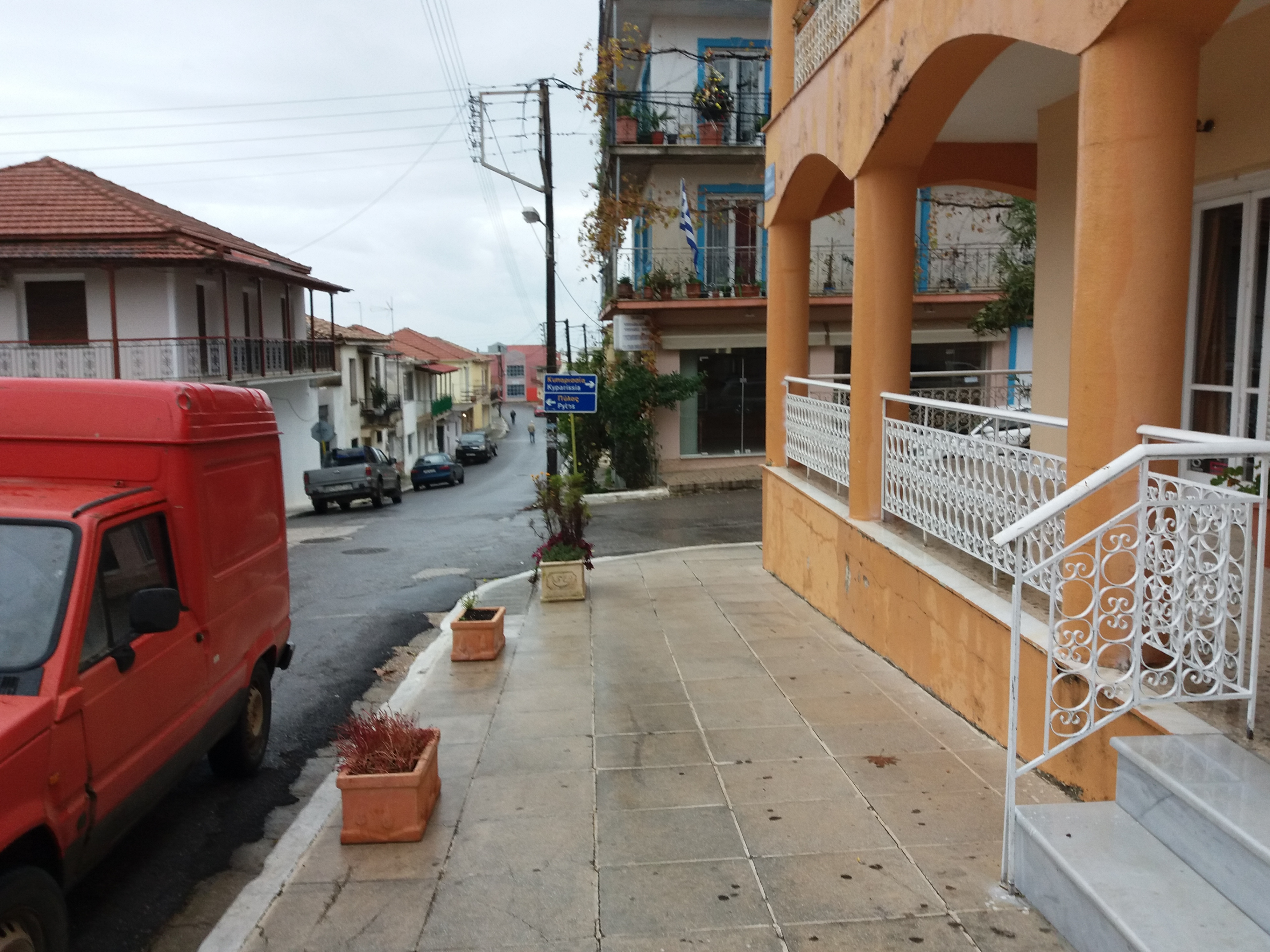 Road in Chora, Messinia, Greece